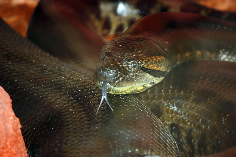 The anaconda